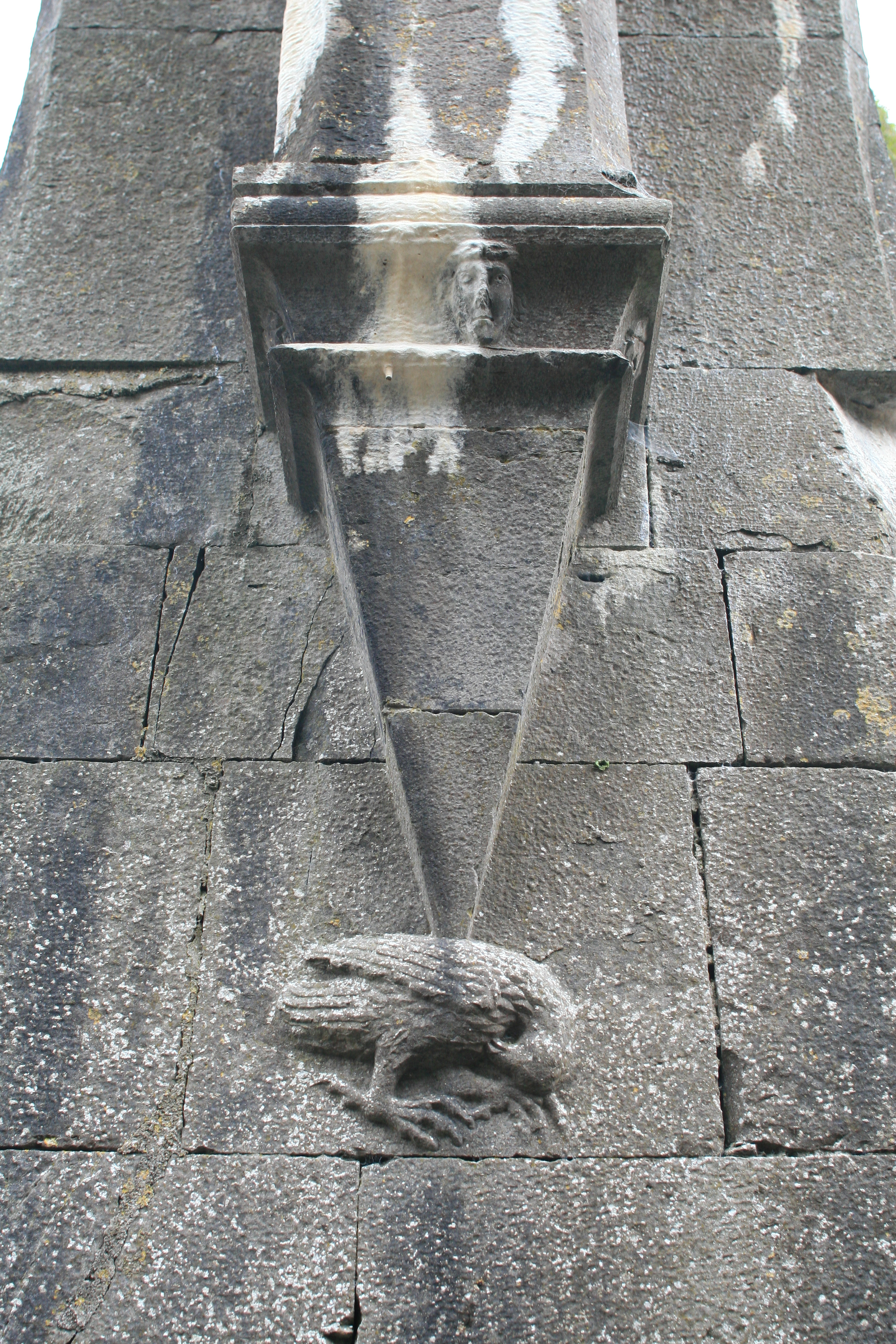 Strade, County Mayo, Ireland Eagle and snake at the opposite corbel Relief of a pelican in connection with a corbel at the north pier of the chancel arc of Strade Priory. This carving was crafted c. 1440-1450. Literature: Colum Hourihane: Gothic Art in Ireland 1169-1550, Yale University Press, ISBN 0-300-09435-3, p. 108-109.